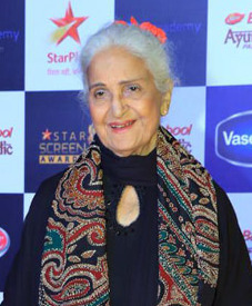 Kamini Kaushal at Star Screen Awards 2019.